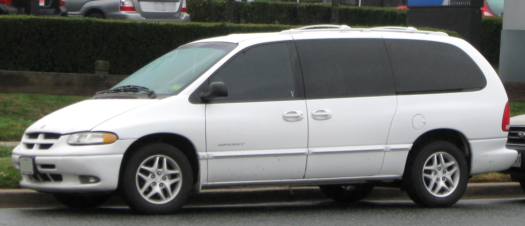 1996-2000 Dodge Grand Caravan photographed in Silver Spring, Maryland, USA.